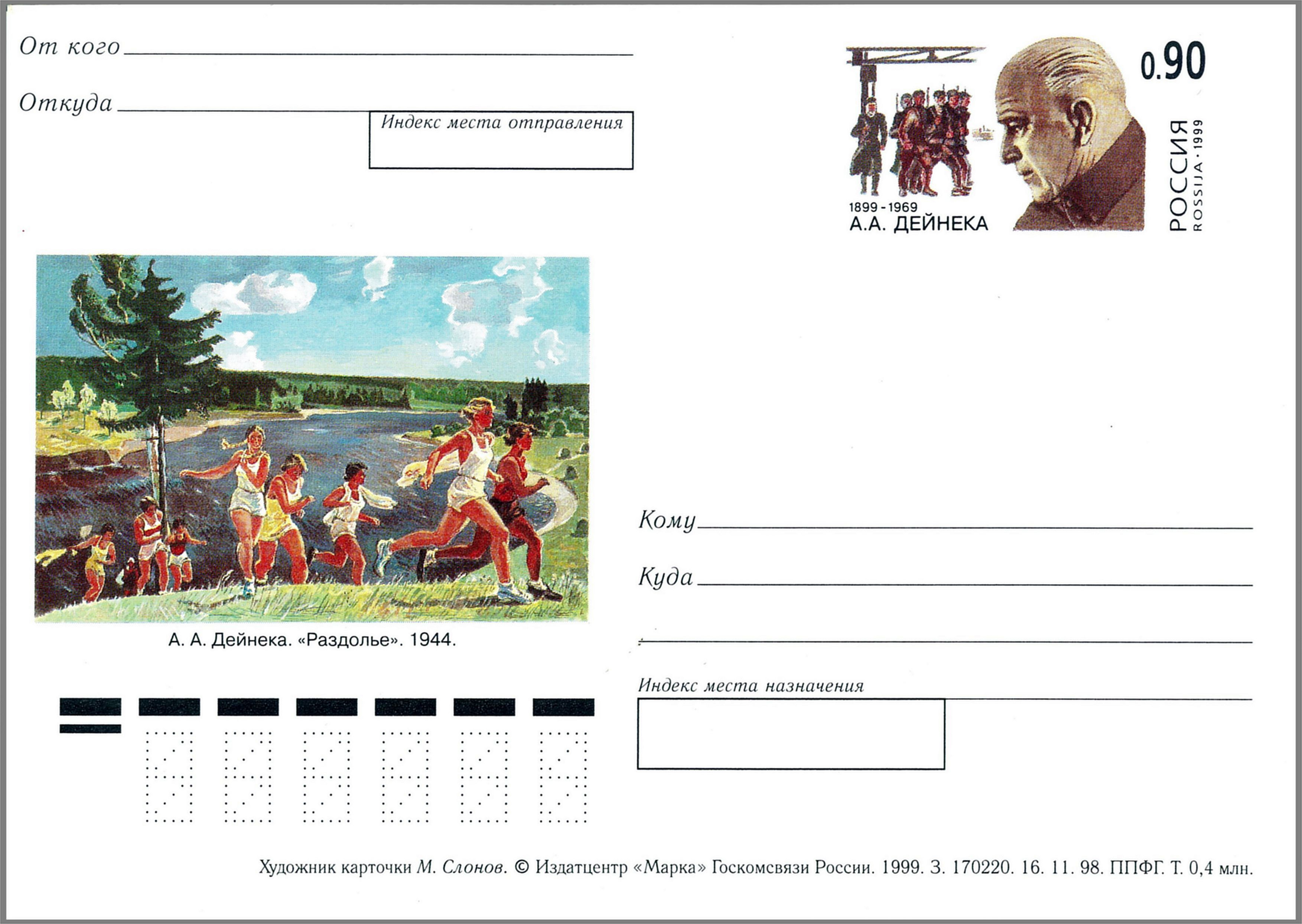 100th birth anniversary of the Soviet artist Aleksandr Deyneka (1899-1969). The postal card with imprinted commemorative stamp, Russia, 23 April 1999, PTC Marka Catalogue No 90/окр-99, Michel No PSo82. Coated paper. Offset printing. Size of the postal card: 105×148 mm. Print run: 40,000. The commemorative stamp (0.90 rubles): the portrait of A. Deyneka, the fragment of the painting The Defense of Petrograd (1923). The illustration: The Expance by Aleksandr Deyneka. 1944. Russian Museum.